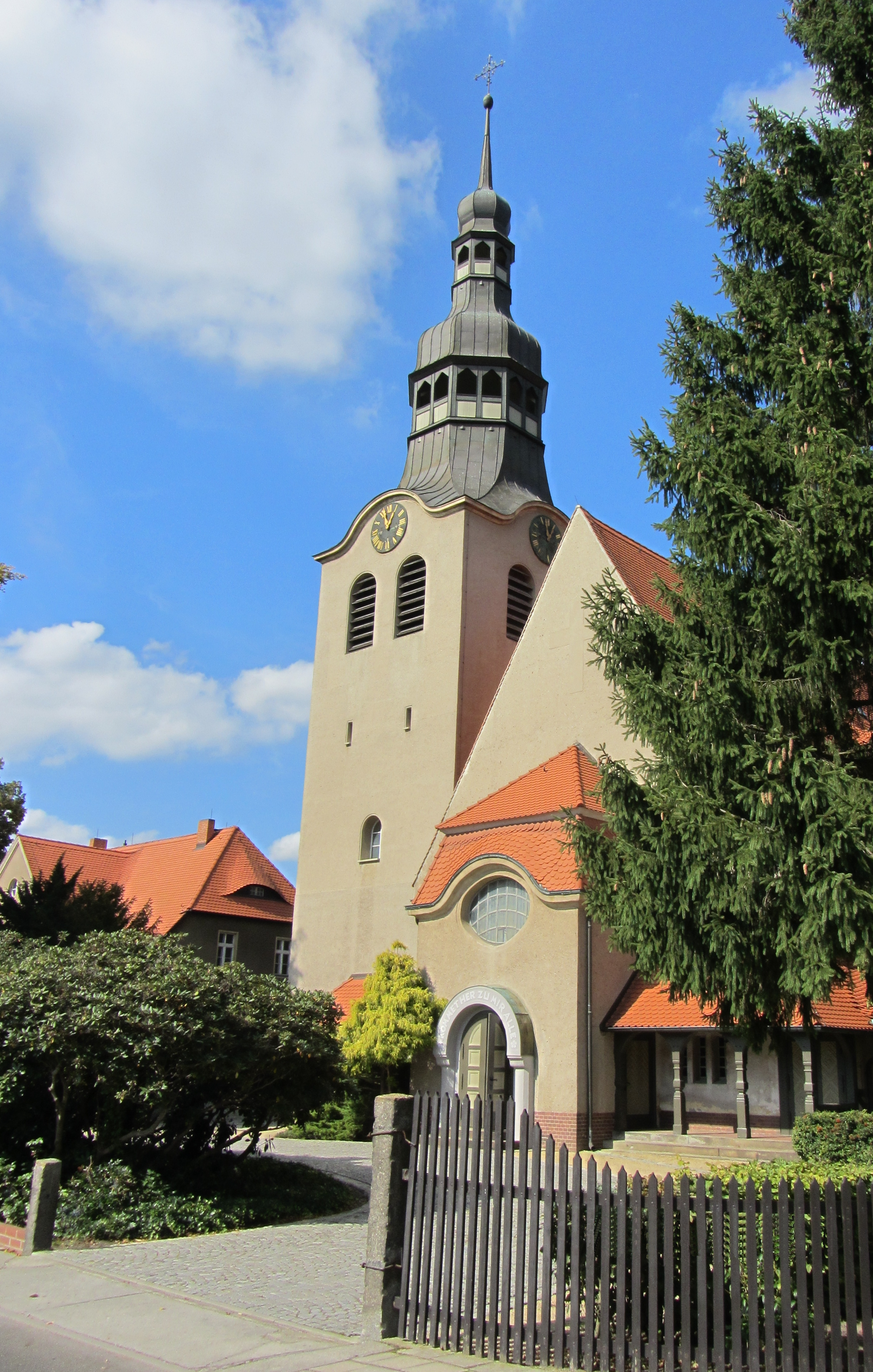 Lutheran Church in Döbern, Germany